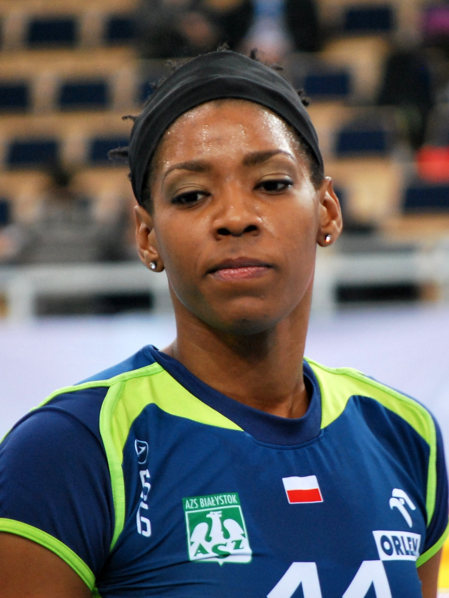 Rheeza Grant, volleyball player from Trynidad & Tobago